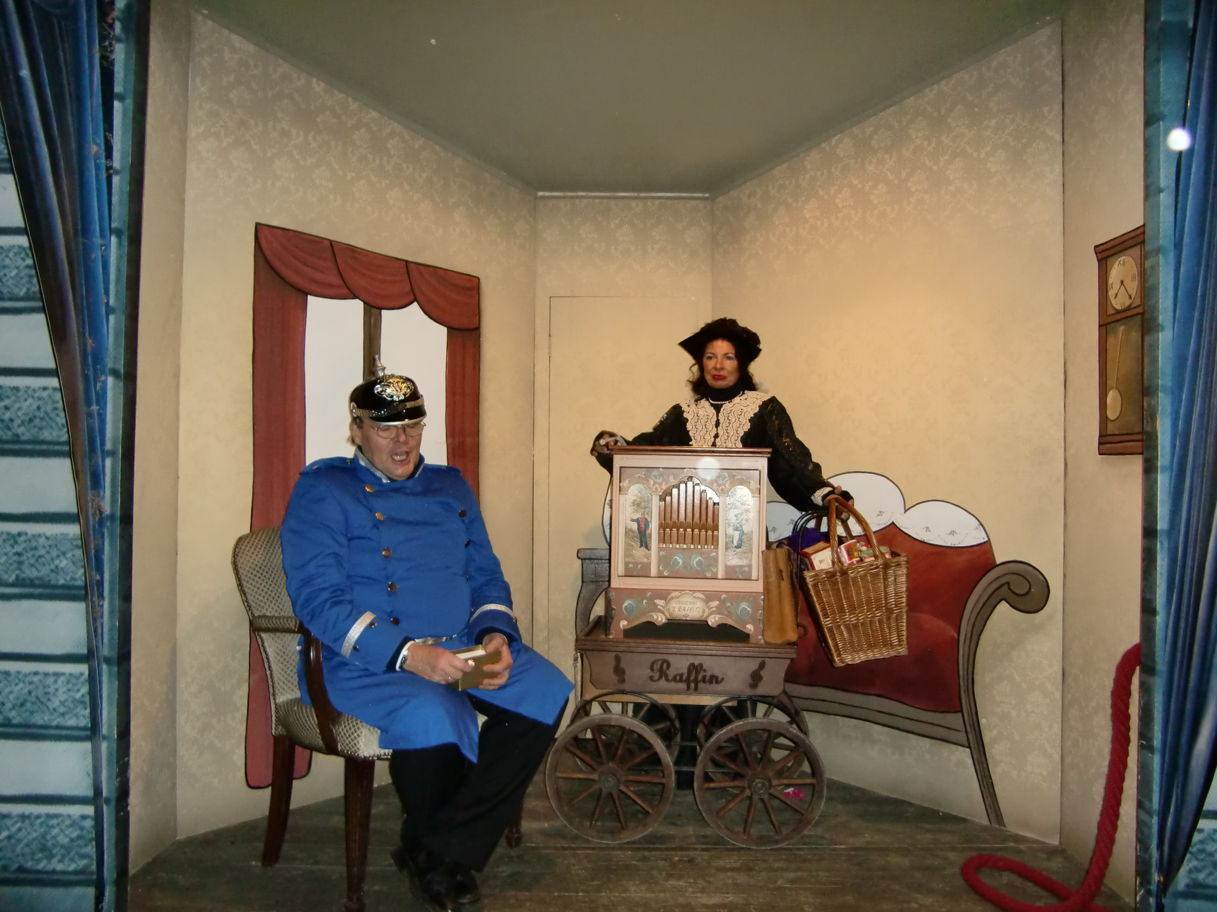 Christmas Market in Berlin (Weihnachtsmarkt Alexanderplatz), Hauptmann von Köpenick